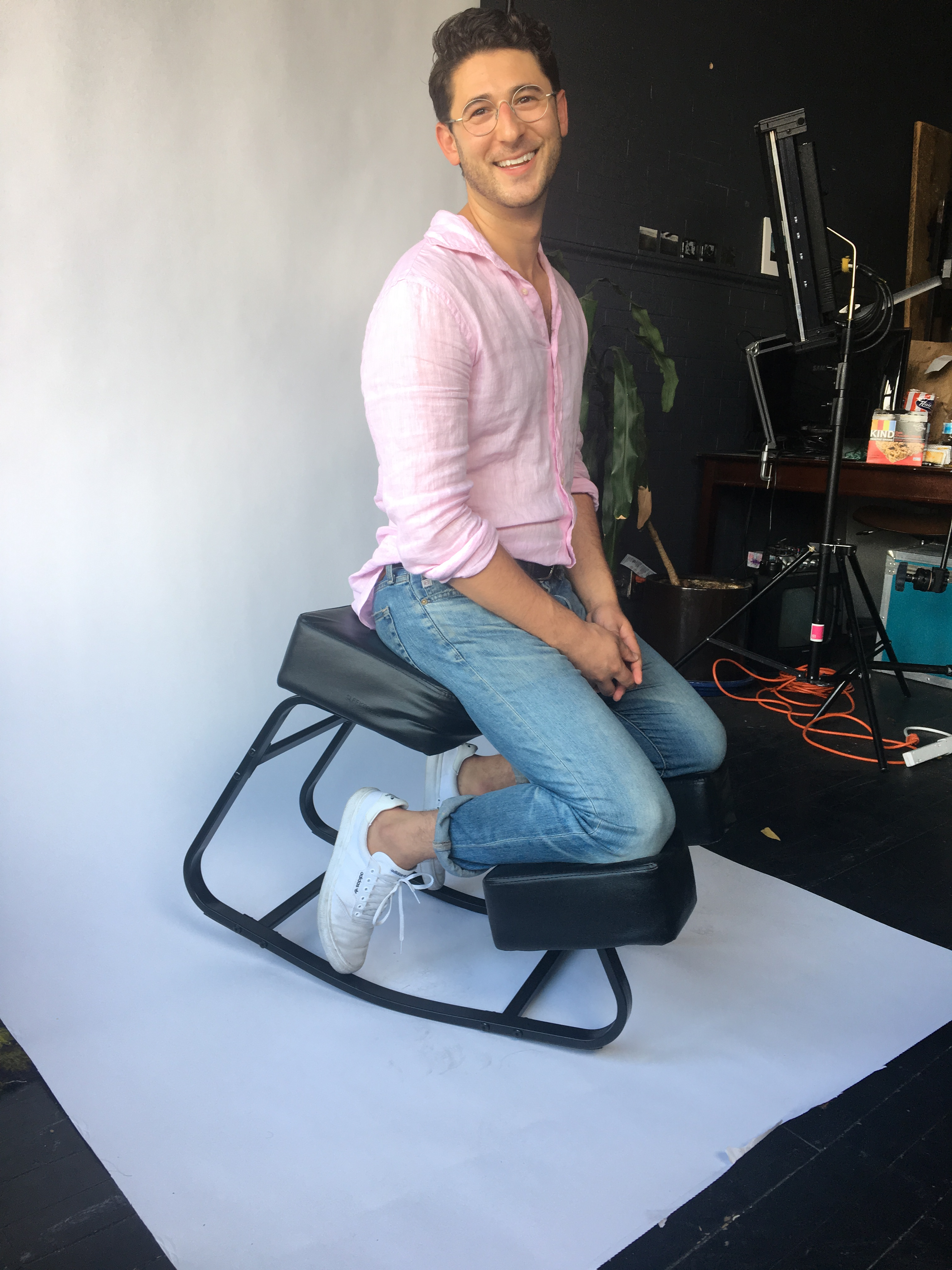 Man sitting in Sleekform Amsterdam Ergonomic Kneeling Chair